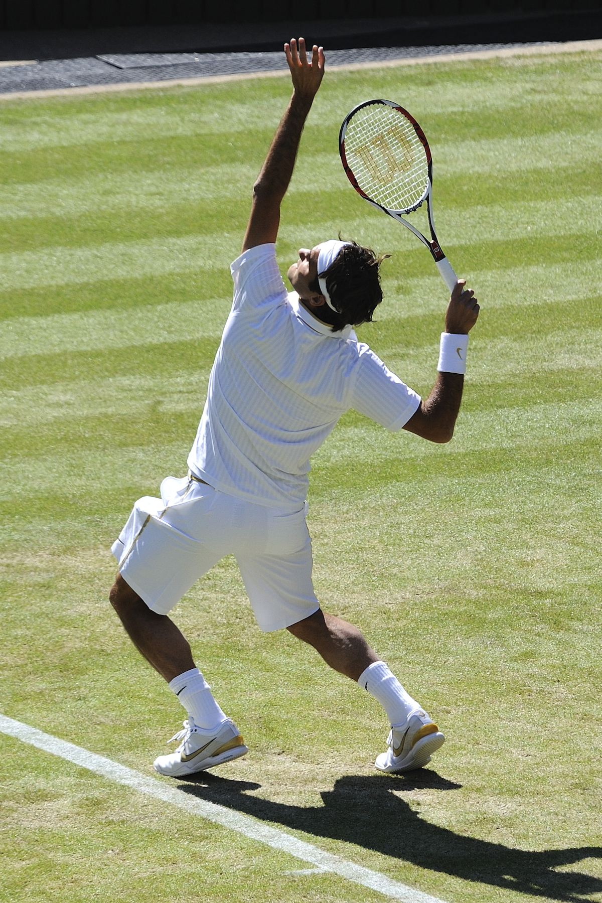 Roger Federer against Guillermo García-López in the 2009 Wimbledon Championships second round